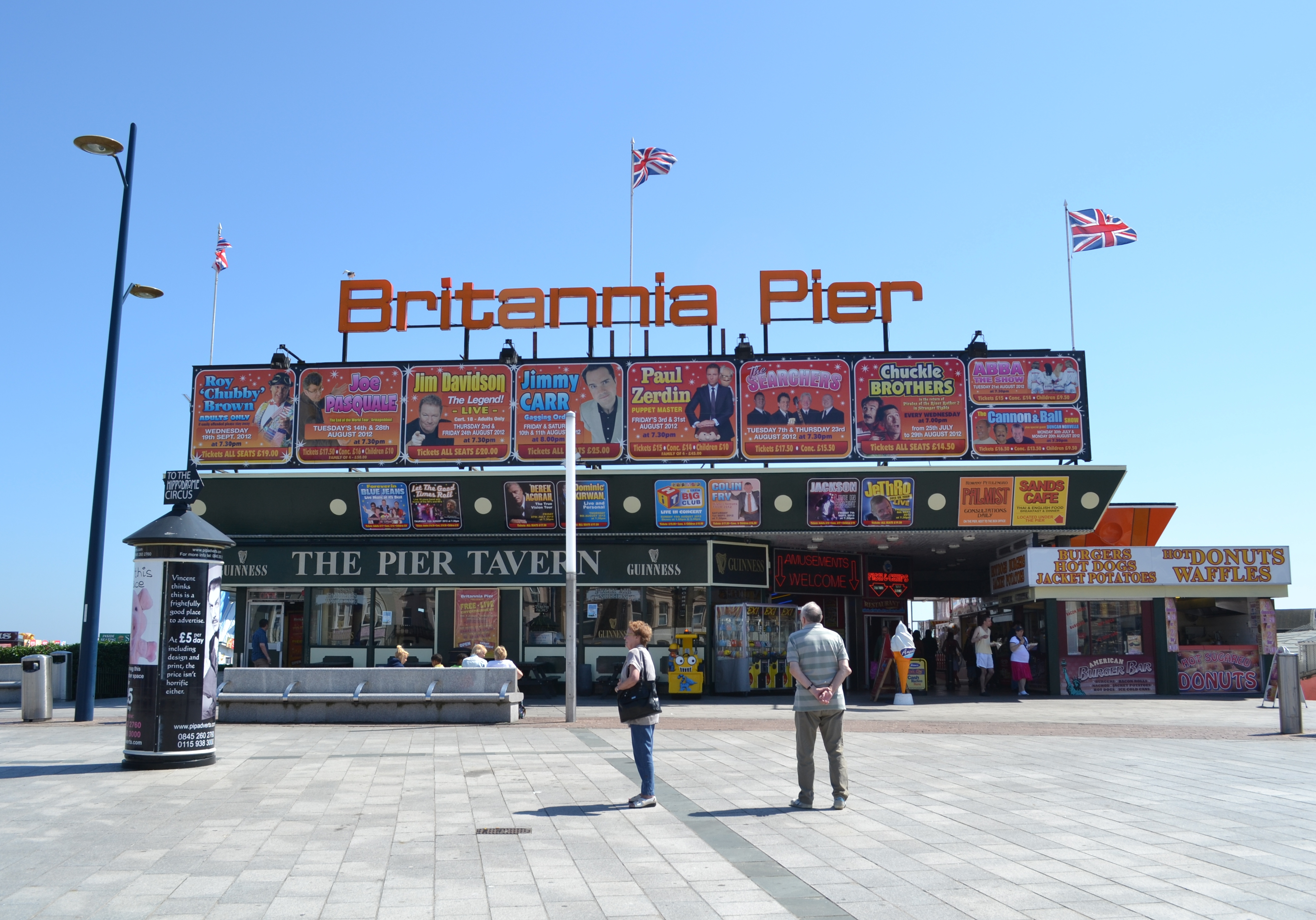 Front of Britannia Pier in Great Yarmouth, Norfolk, UK.